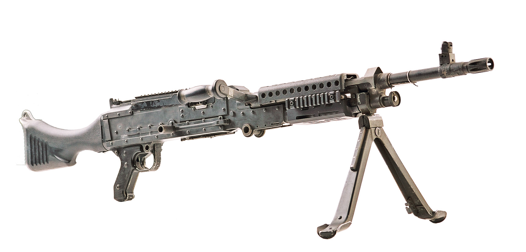 M240B MG.